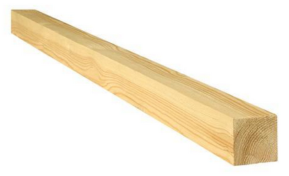 Wood dowel